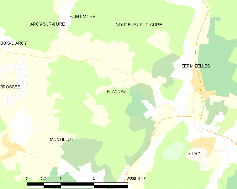 Map of French municipality Blannay